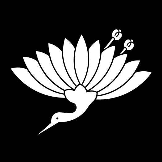 Kiku tsuru mon, a type of Kiku mon, shaped "tsuru" (crane)